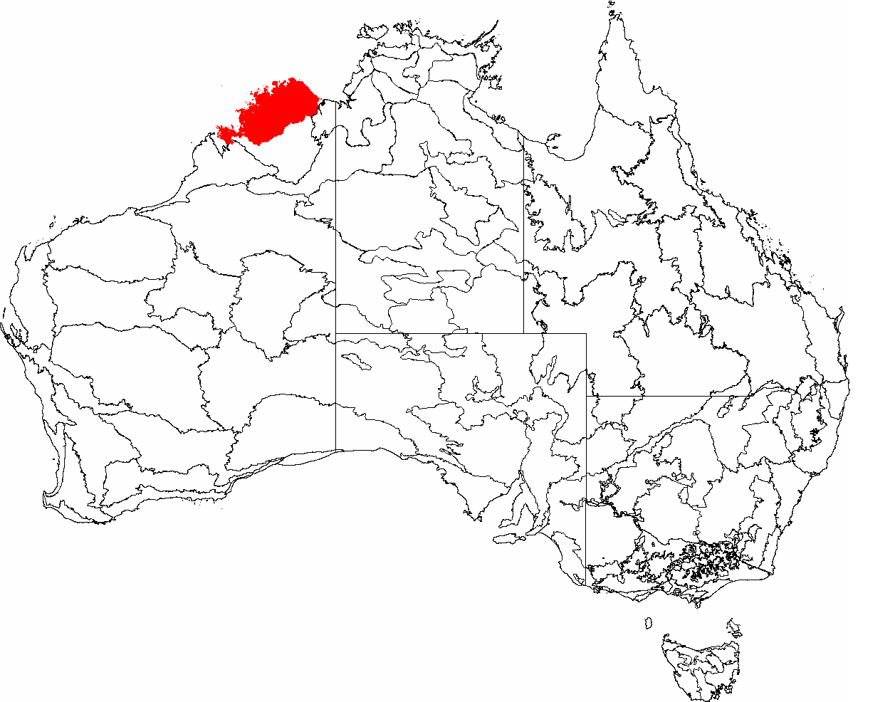 This is a map of the Interim Biogeographic Regionalisation of Australia (IBRA), with state boundaries overlaid. The North Kimberley region is shown in red.